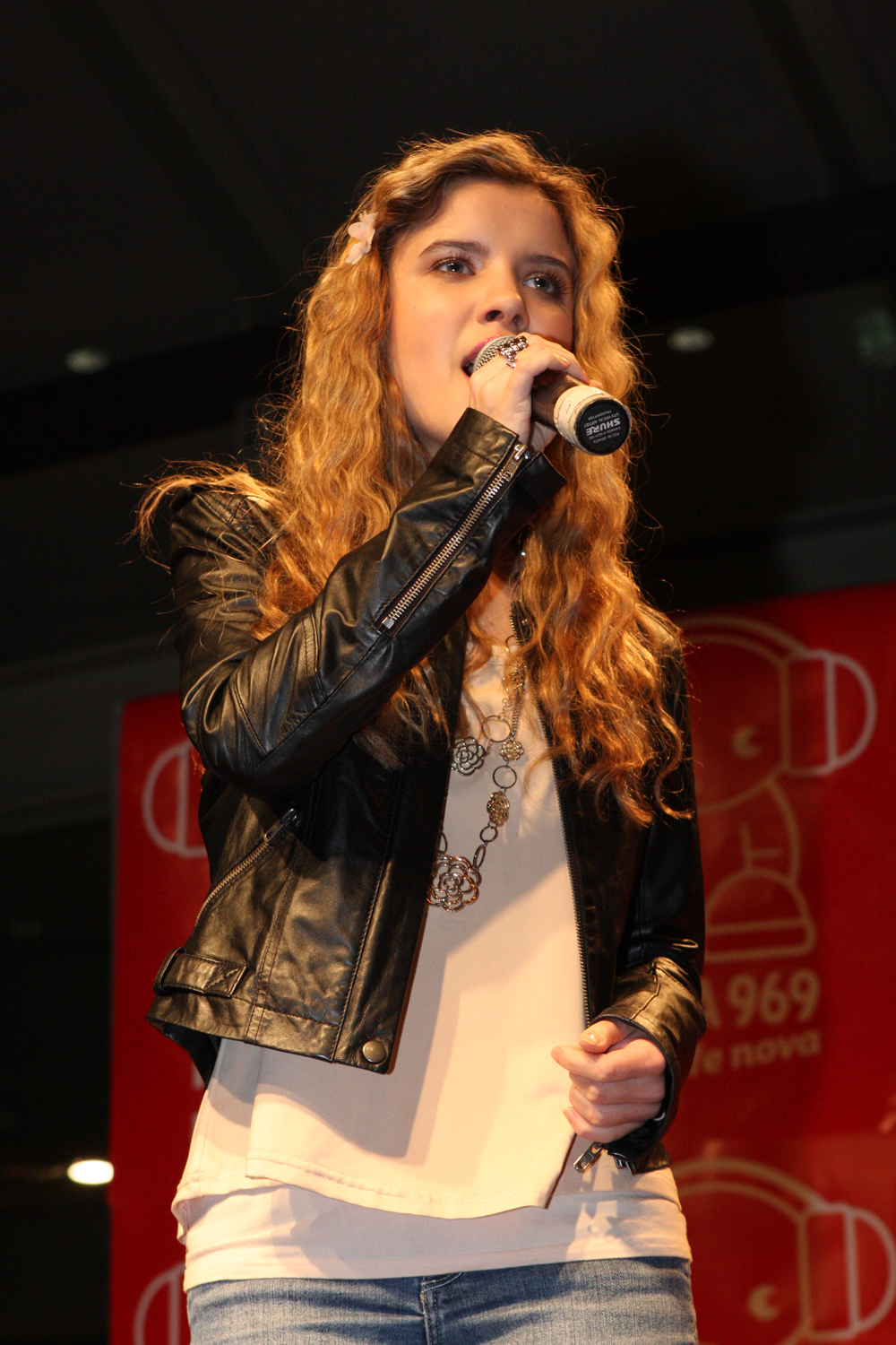 Rachael Leahcar performing live at Warringah Mall, Sydney, Australia.